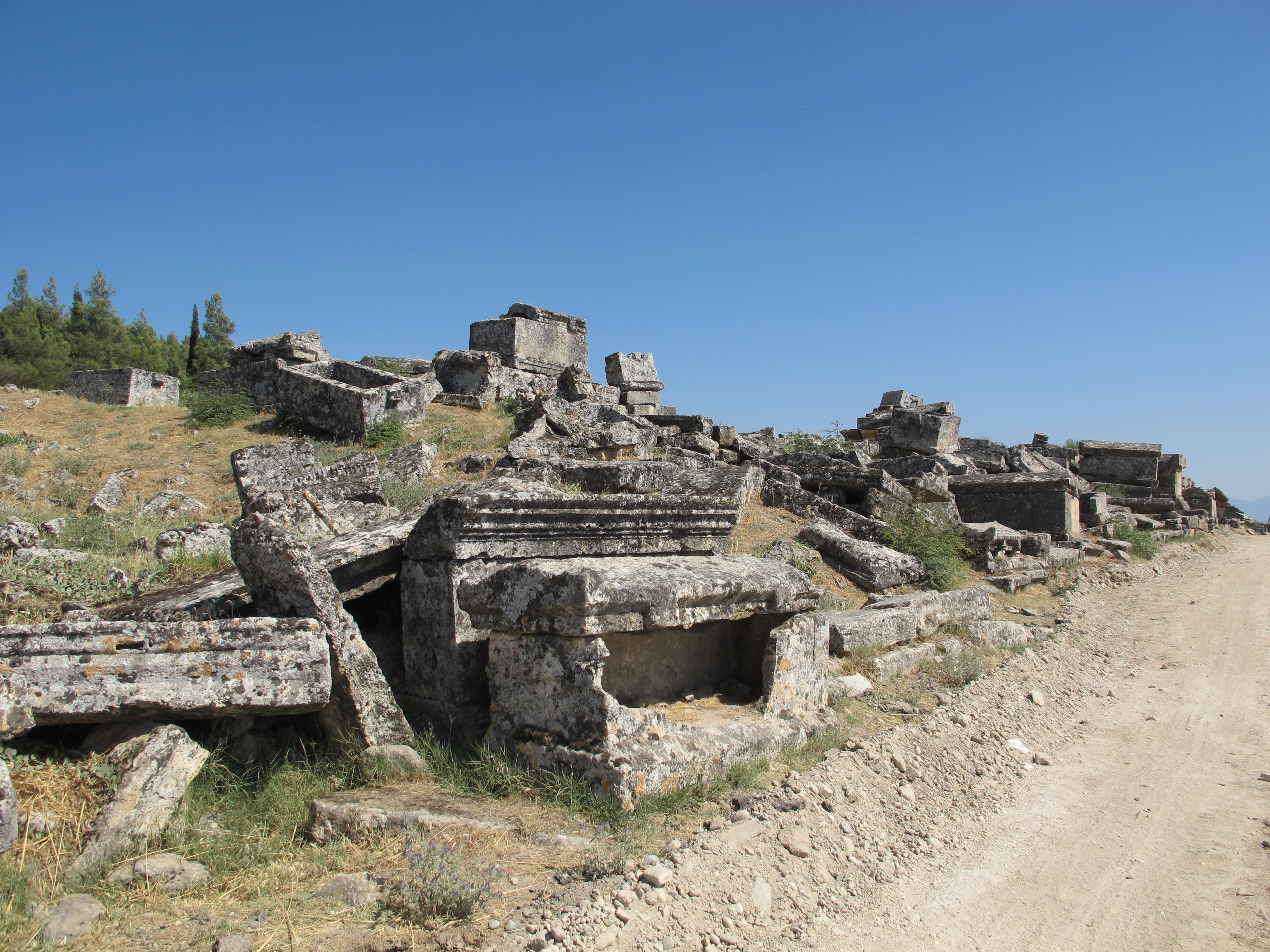 Hyerapolis, necropoli